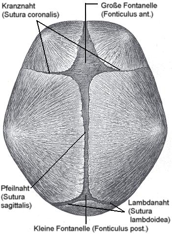 Sagittal section of skull. This is a drawing of the head of a newborn baby as seen from above, showing the fontanelles and sutures. Originally the picture has been published in 1918 and therefore lapsed into the public domain. The original terms have been deleted and German and Latin terms have been added.